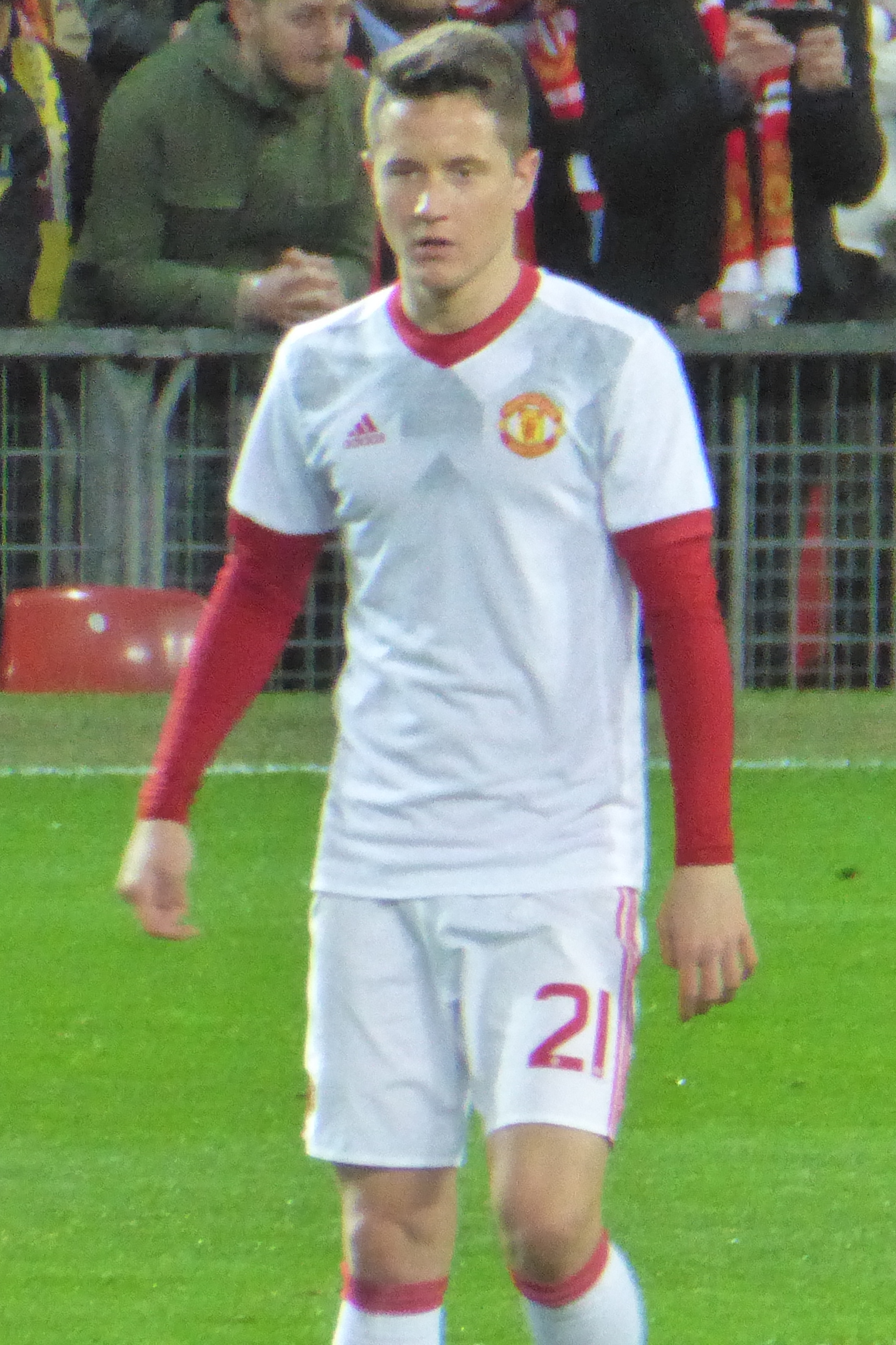 Ander Herrera warm up for Manchester United v FC Rostov (1-0), UEFA Europa League, Old Trafford, Manchester, 16 March 2017